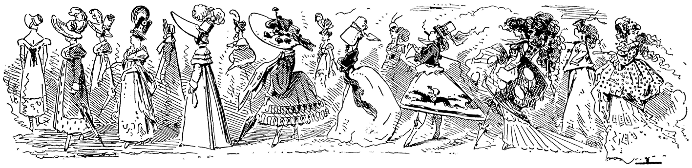 A somewhat subjective and fanciful mid-Victorian caricature by Alfred Grévin, which seems to express his personal opinion of the progressive degeneration of women's clothing styles over the first seven or eight decades of the 19th century (this was not intended to be realistically historically accurate on the right-hand side...).